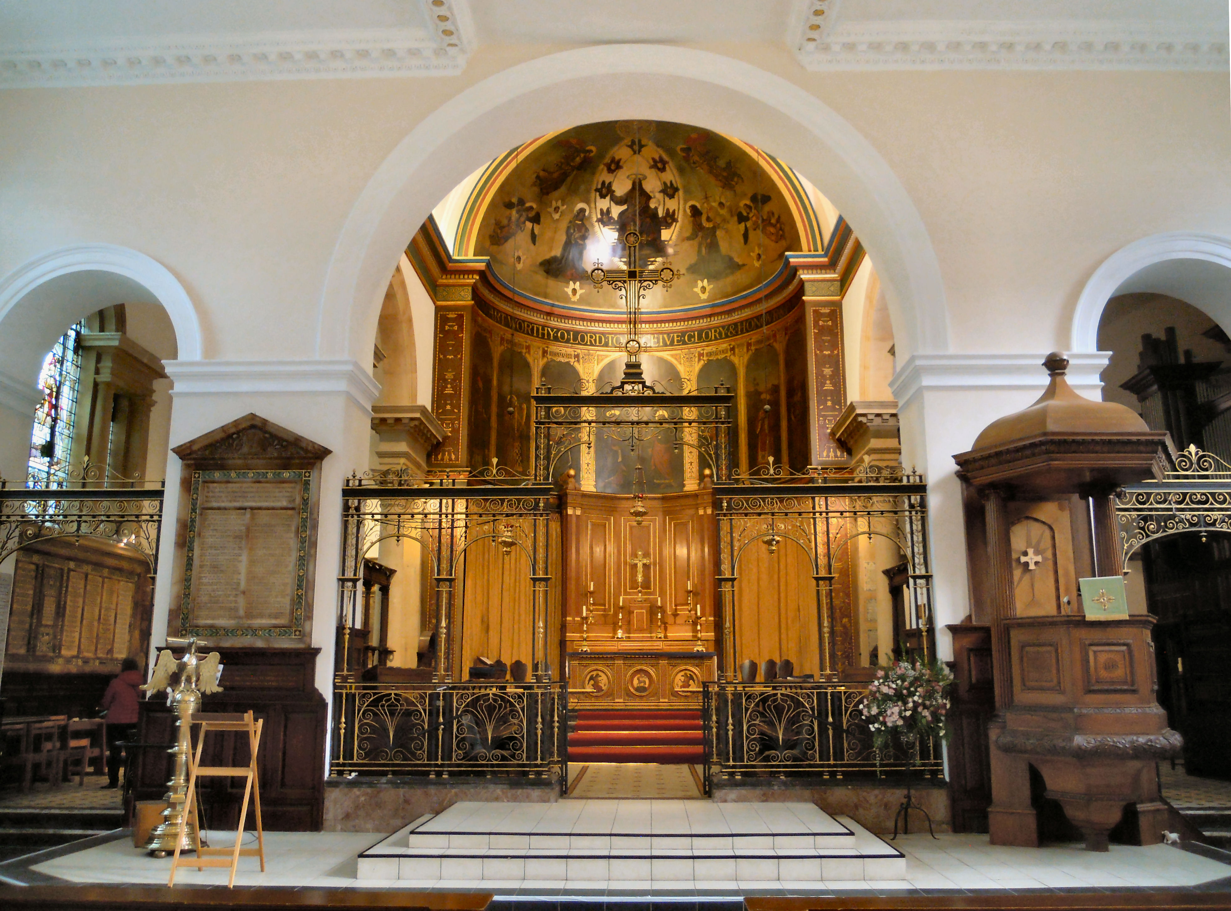 The Chancel of Holy Trinity Church in Guildford in Surrey